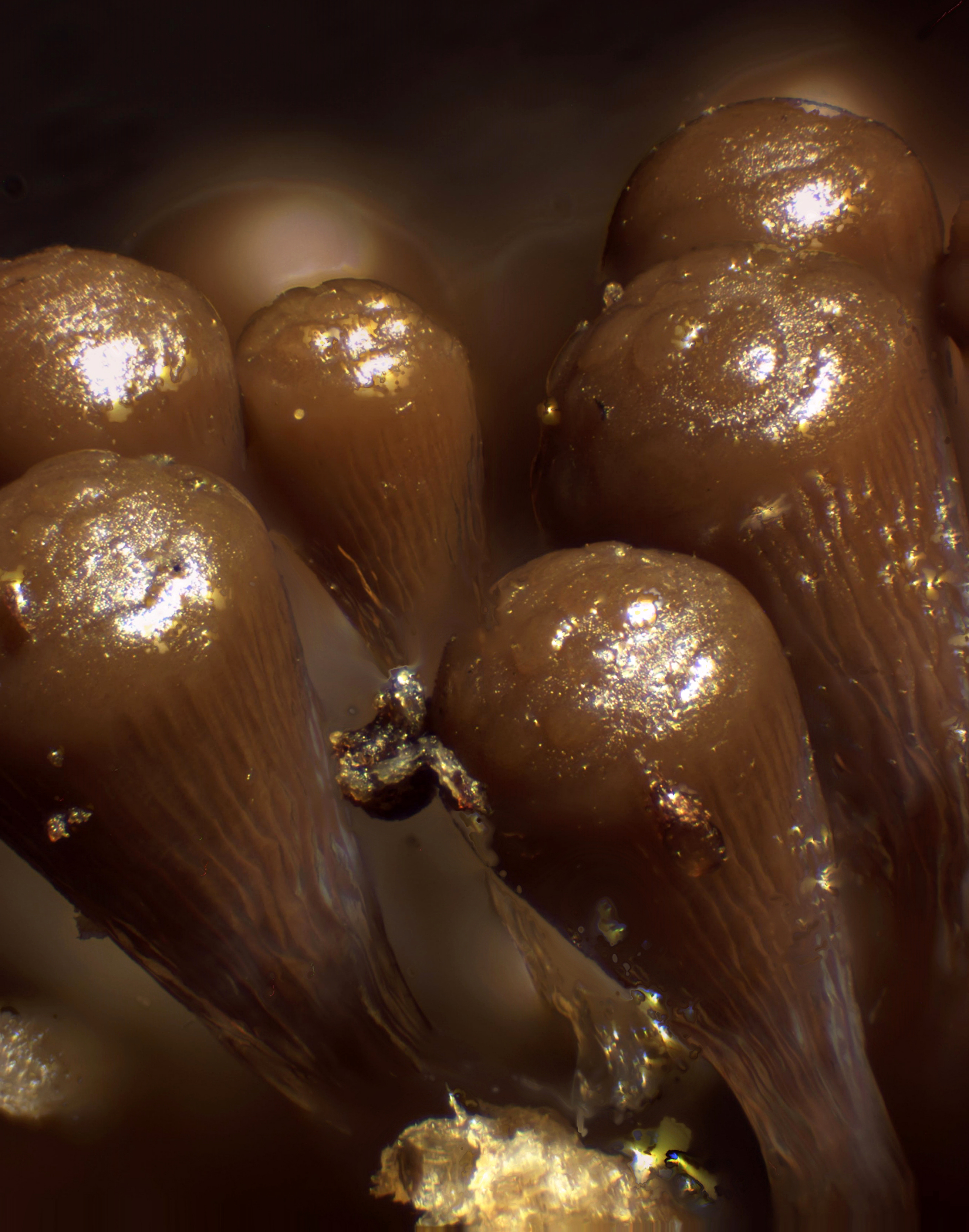 Hemitrichia clavata (Pers.) Rostaf. Image location: Henry Cowell Redwoods State Park, Santa Cruz Co., California, USA Hemitrichia clavata at 40X magnification. Used references: For more information about this, see the observation page at Mushroom Observer.